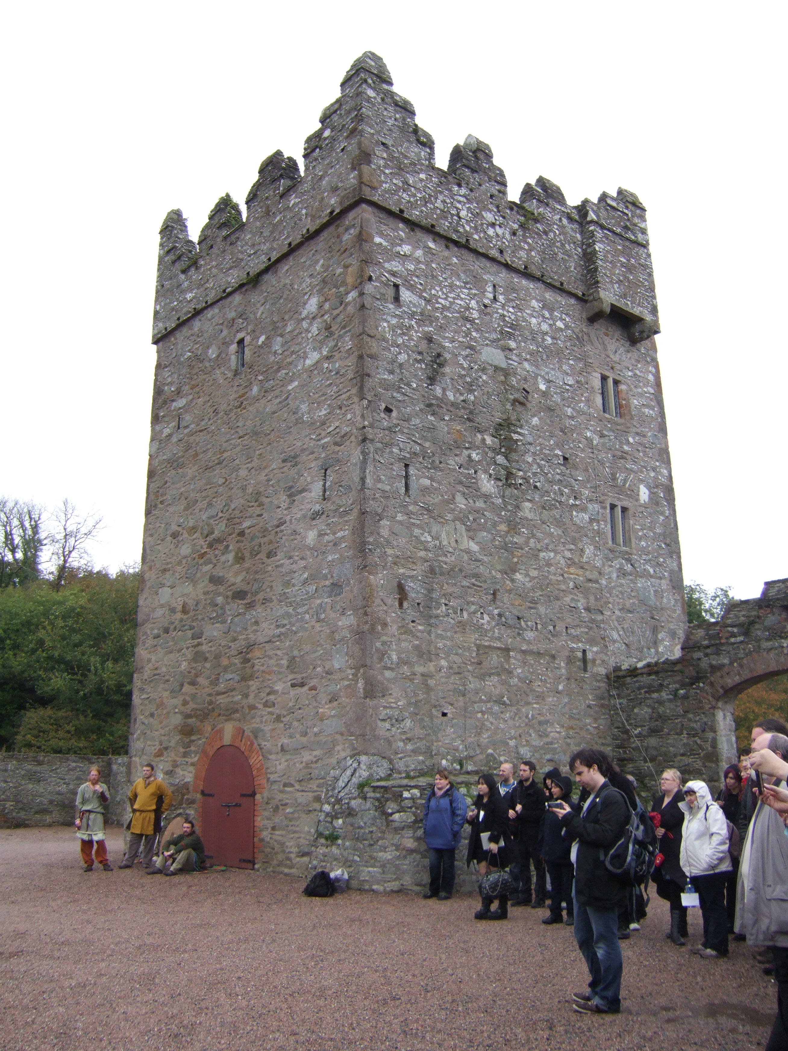 Castle Ward, used for filming Winterfell scenes in "Game of Thrones" season 1